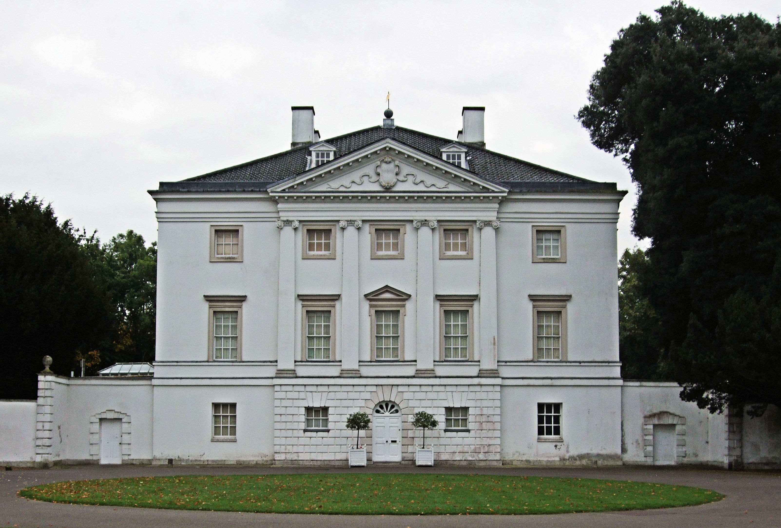 North Face Of Marble Hill House, Twickenham - London.